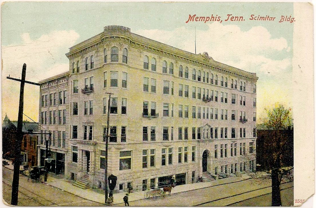 Scimitar Building, Memphis, TN. 1909 postcard.